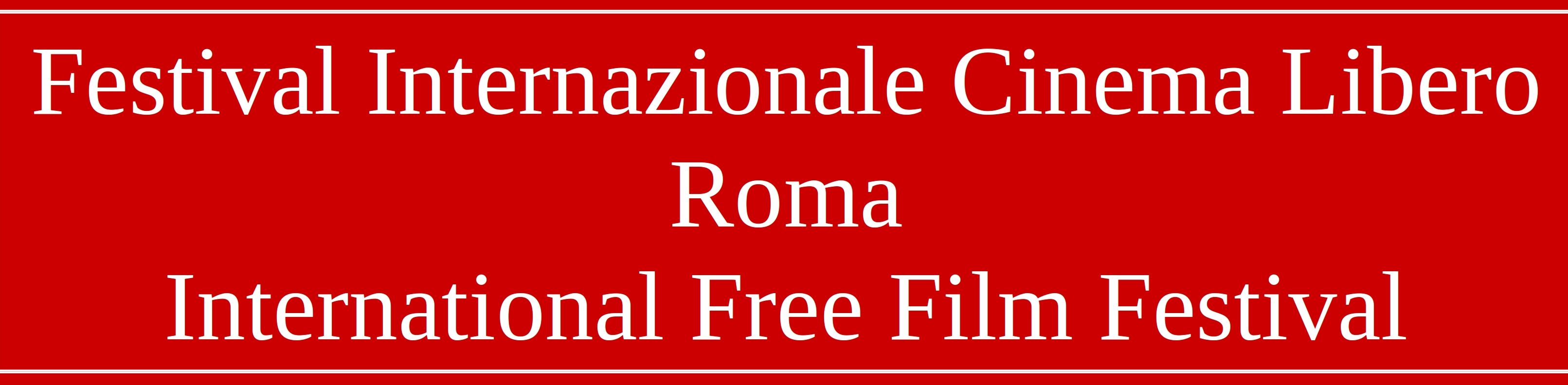 Logo of Festival Internazionale Cinema Libero (International Free Film Festival), founded and directed in Rome (Italy) by Kadour Naimi (2006-2008).